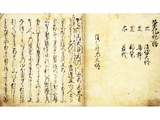 Eiga Monogatari